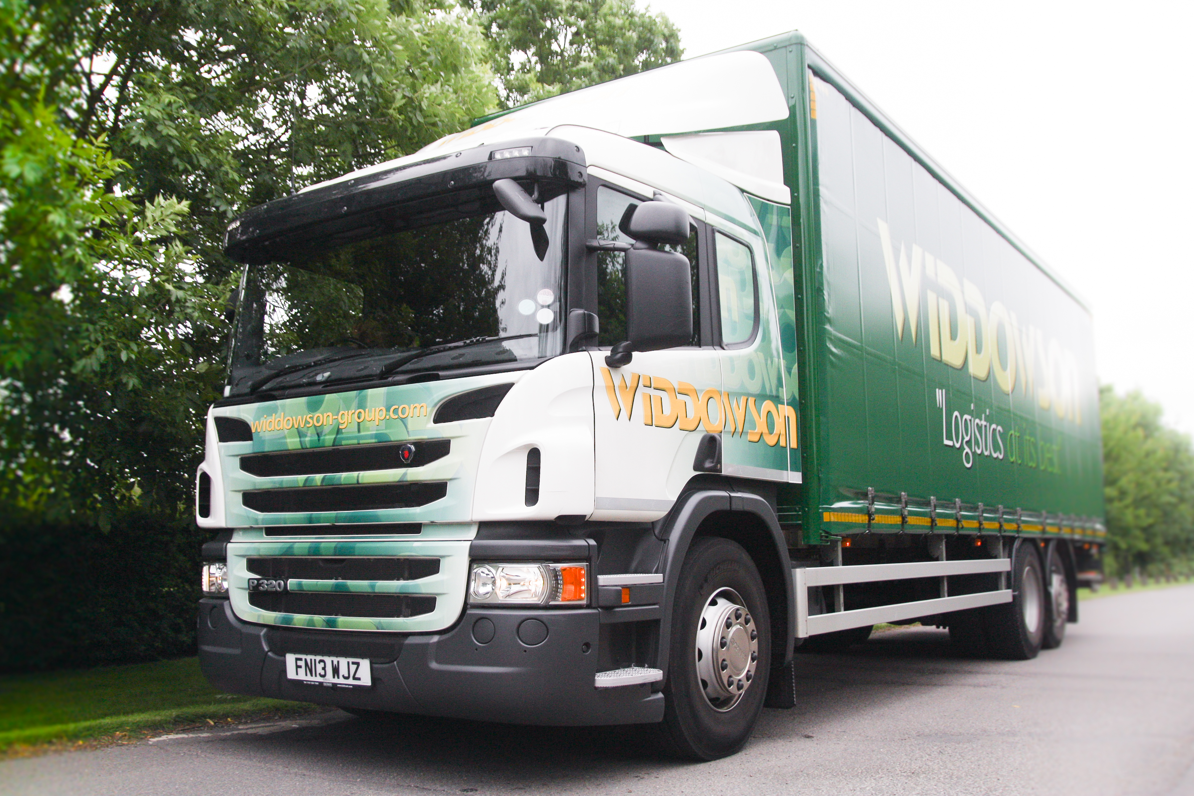 2013 Widdowson Group Liveried Scania P320 Lorry - Photo Taken by Mark McLaughlin